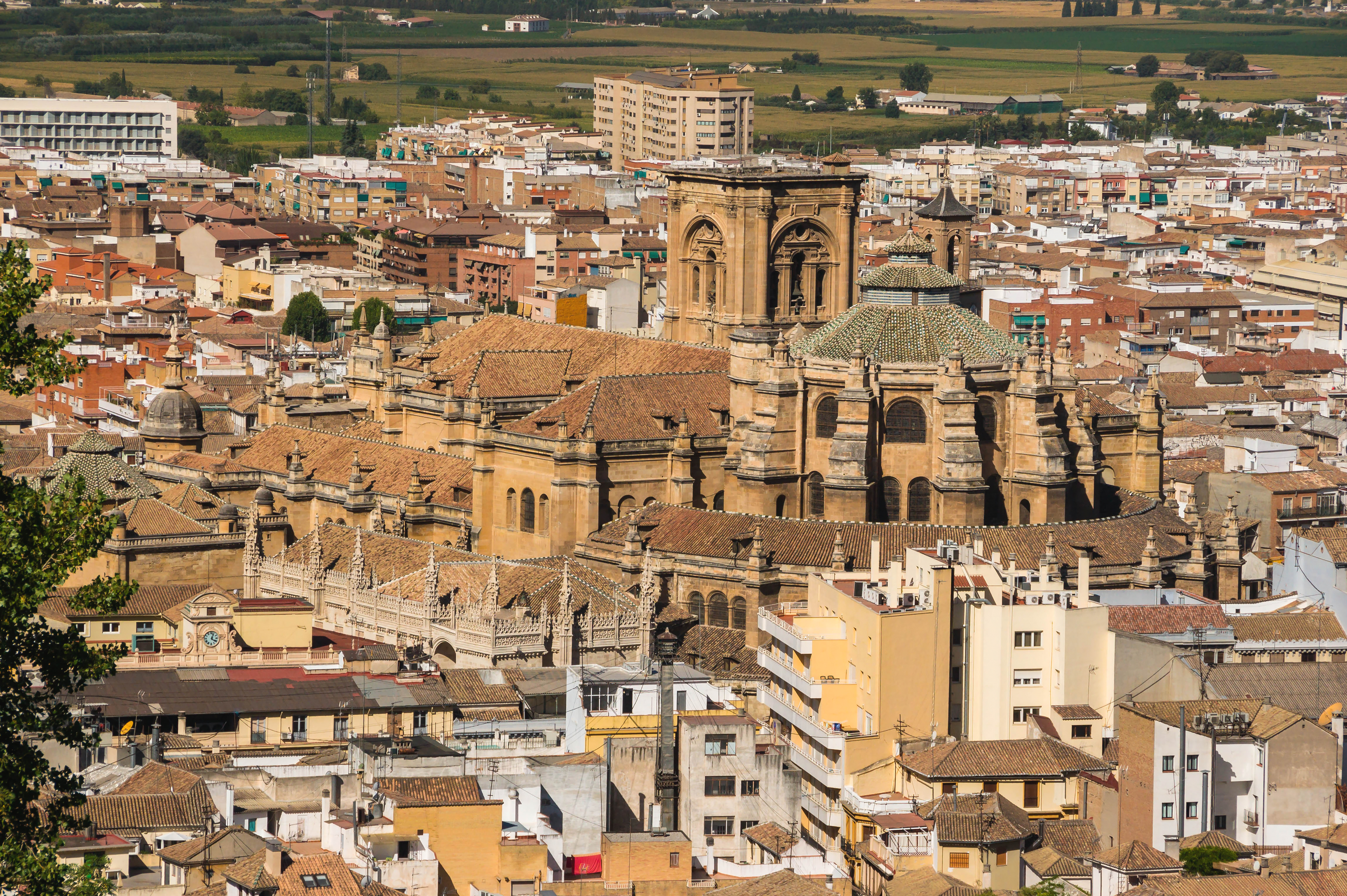 Cathedral and Royal Chapel, seen from Alhambra, Granada, Spain.